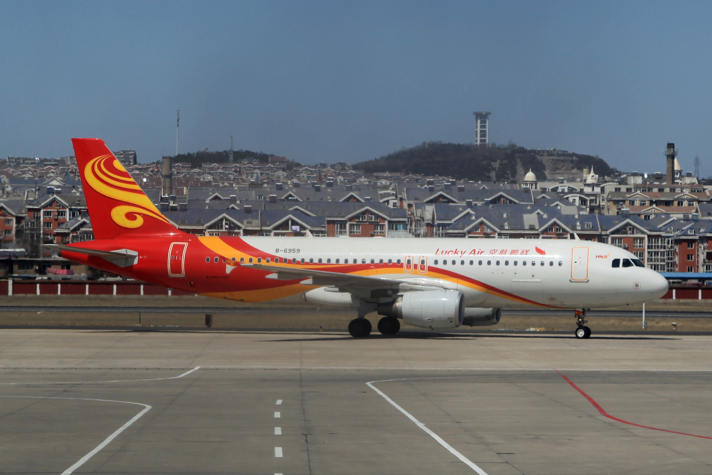 B-6959 | Lucky Air | Airbus A320-214 | Dalian Zhoushuizi International Airport [DLC]